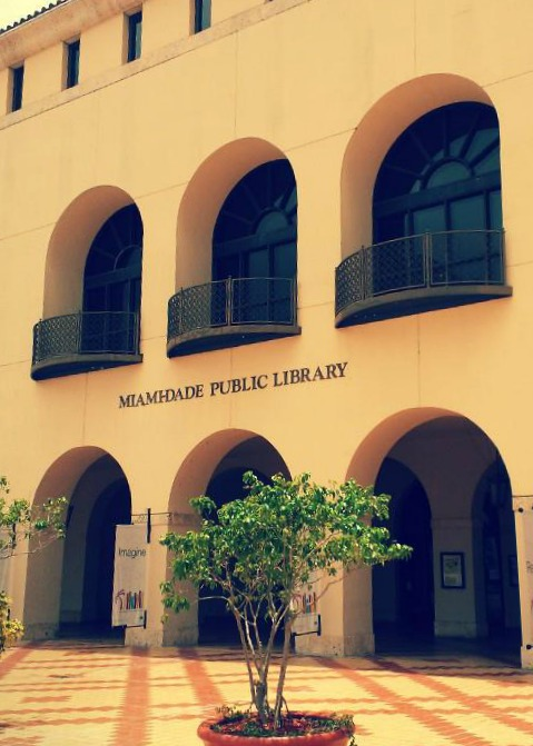 Main Library, Downtown Miami - Miami-Dade Public Library System